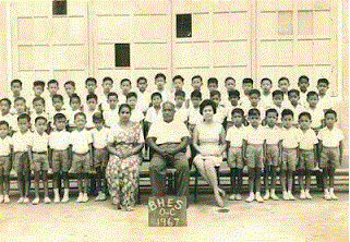 1967 class